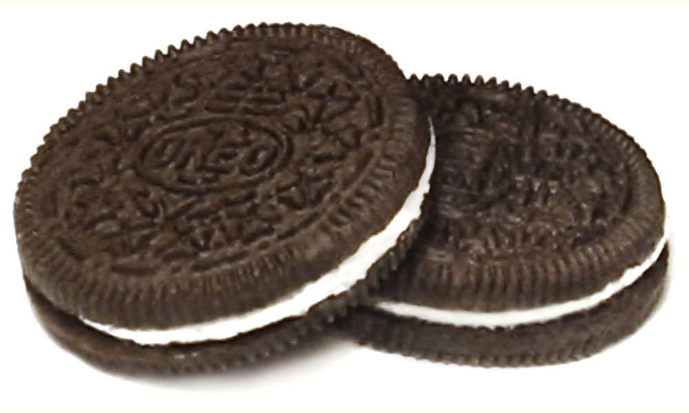 Photo of Oreo cookies.